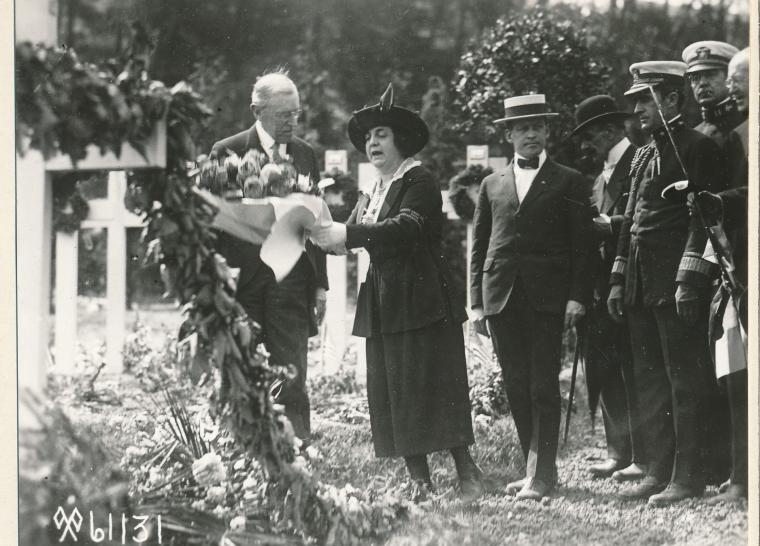 President Woodrow Wilson Decorating graves at Suresnes American Cemetery with his wife, FIrst Lady Edith Bolling Galt Wilson on Decoration Day.